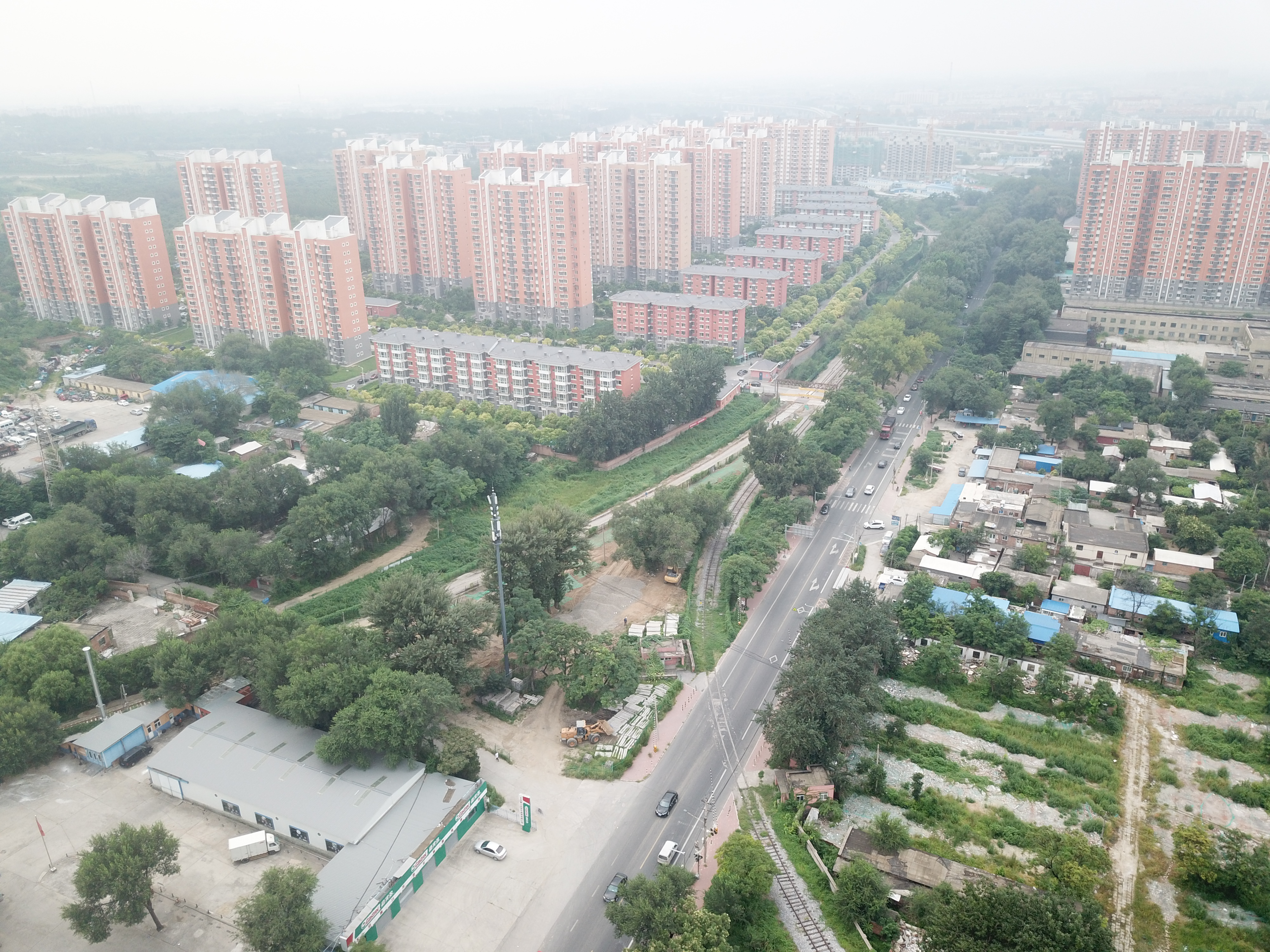 Fangshan Railway